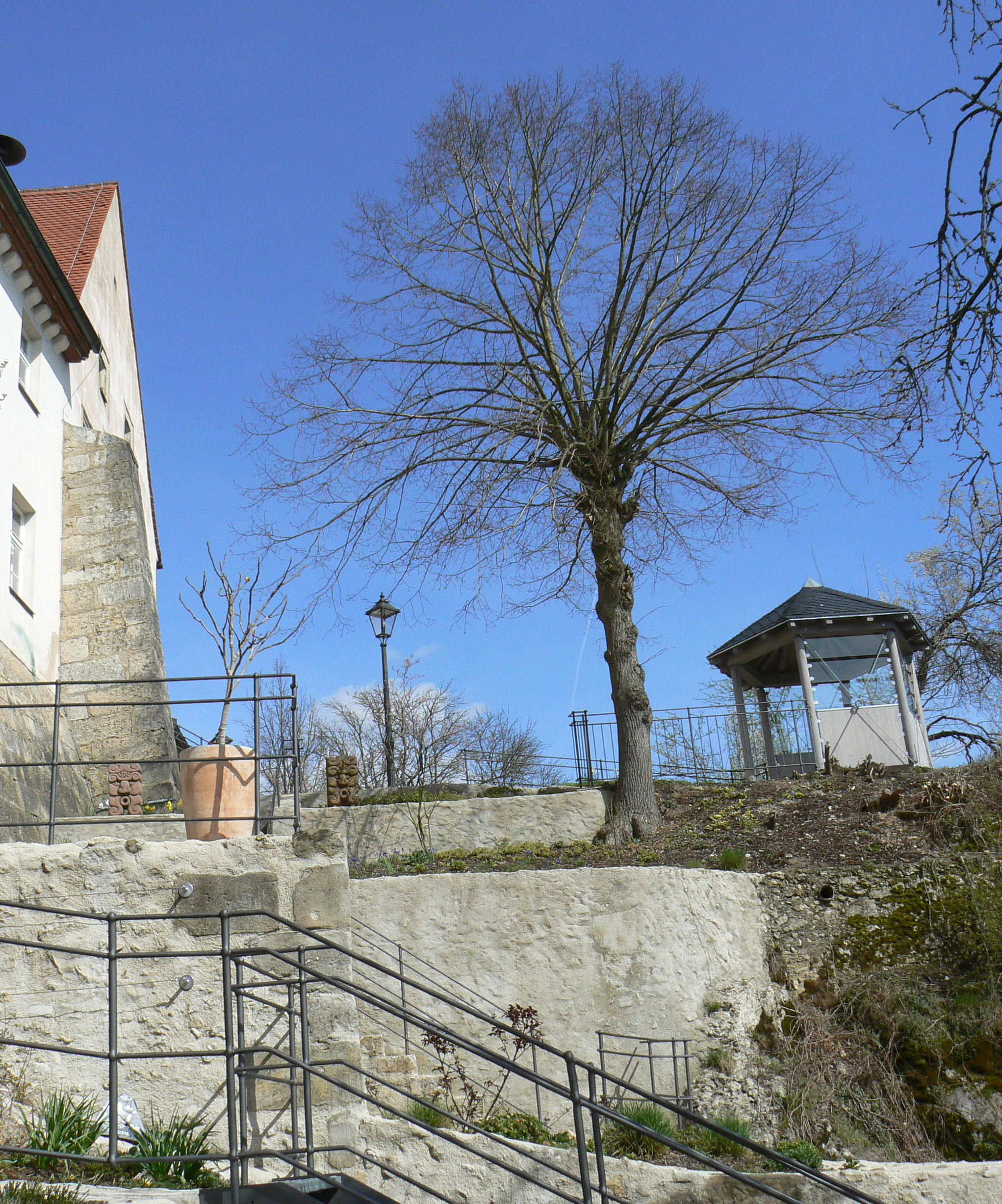 view of Hollfeld, Germany